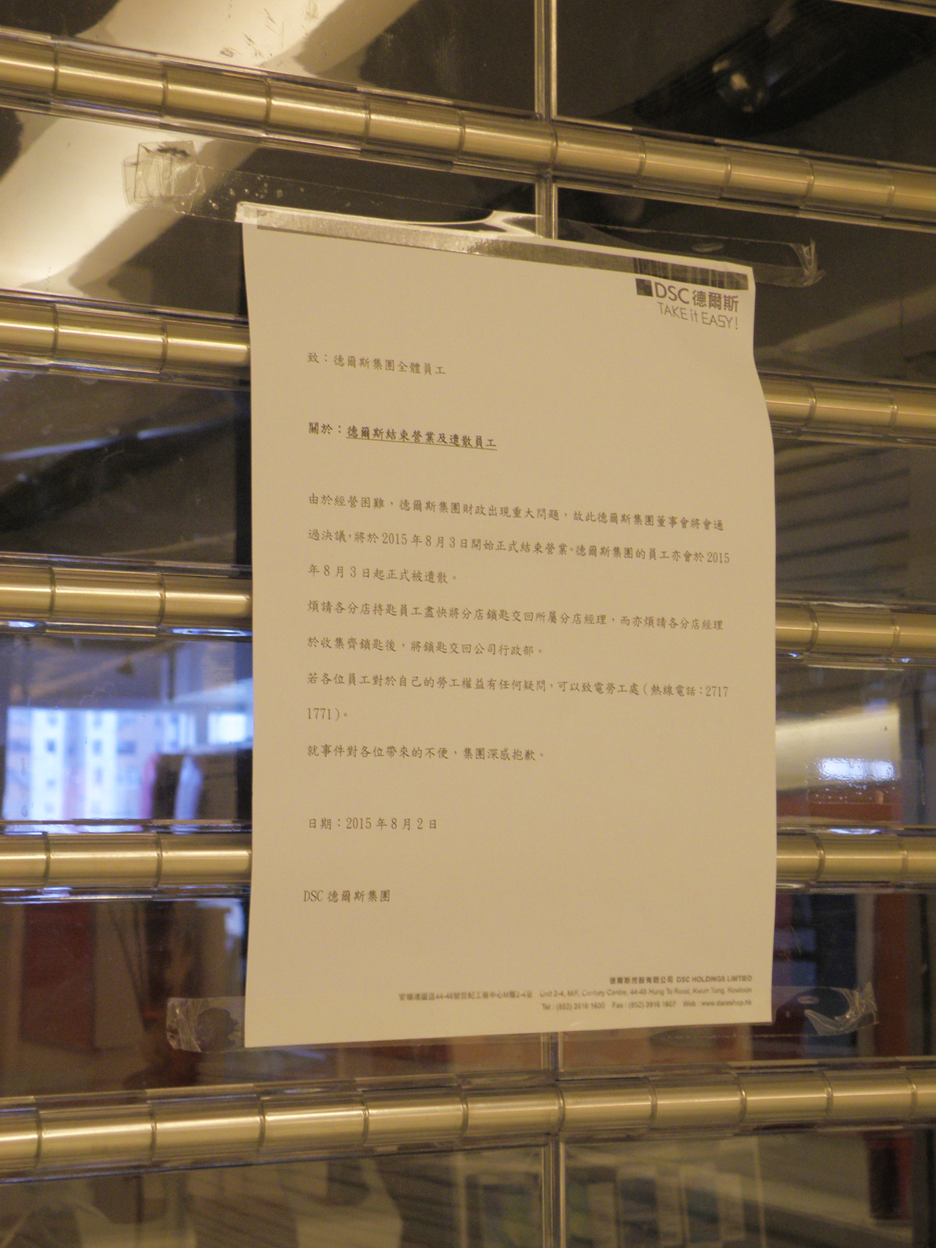 Business termination notice of DSC Holdings, Hong Kong.